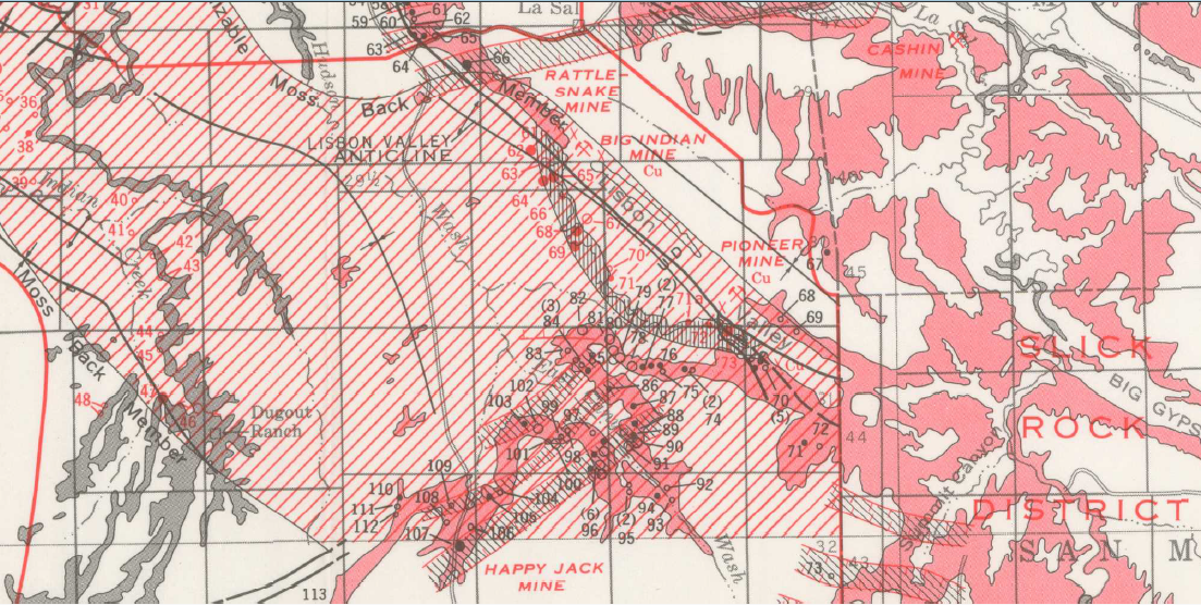 USGS Geologic map of the Lisbon Valley area with the Late Jurassic Morrison Formation shaded red, the Late Triassic Chinle Formation shaded black, vertical black hatching depicting the basal part of the Chinle Formation, red diagonal hatching depicting the Moss Back Member of the Chinle Formation, and key uranium mines numbered. The Mi Vida Mine is a red number 68.